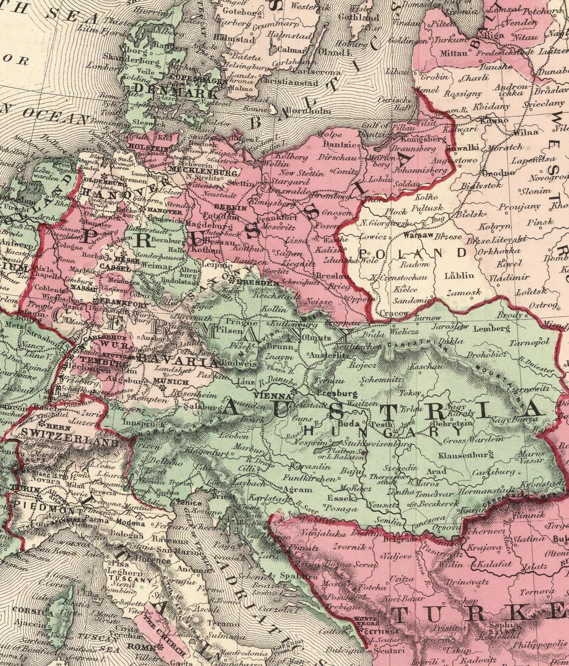 Johnson's Europe Published By Johnson And Ward. Pub Title: Johnson's New Illustrated (Steel Plate) Family Atlas, With Physical Geography, And With Descriptions Geographical, Statistical, And Historical ... By Richard Swainson Fisher, M.D. ... Maps Compiled, Drawn, And Engraved Under The Supervision Of J.H. Colton And A.J. Johnson. New York: Johnson And Ward, Successors To Johnson And Browning (Successors To J.H. Colton And Company,) No. 113 Fulton Street. 1865. Entered ... One Thousand Eight Hundred and Sixty-four, by A.J. Johnson ... New York. Note: In full color. Shows, among others, the Russian states of Little Russia, West Russia, South Russia, Kasan, and Astrachan. Relief shown by hachures. Meridians Greenwich and Washington D.C.